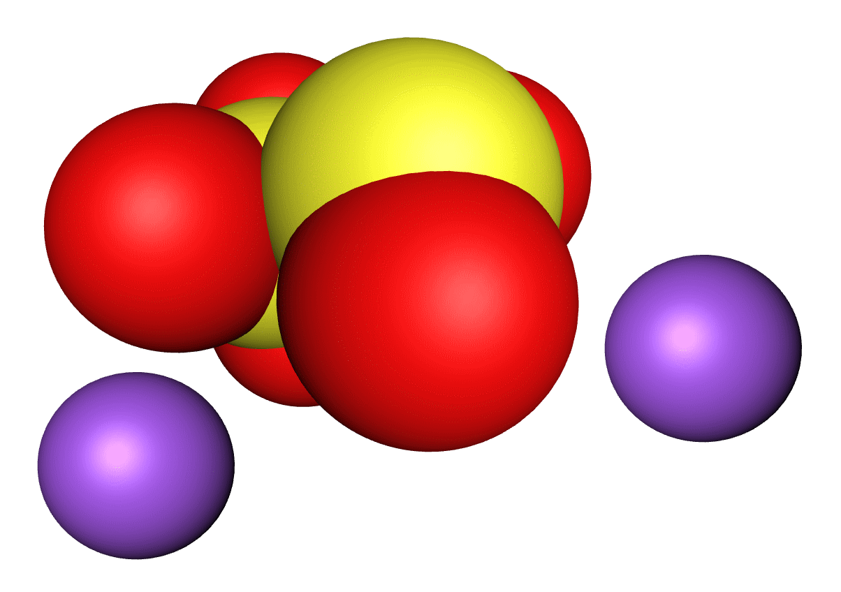 Space-filling model of the Sodium metabisulfite